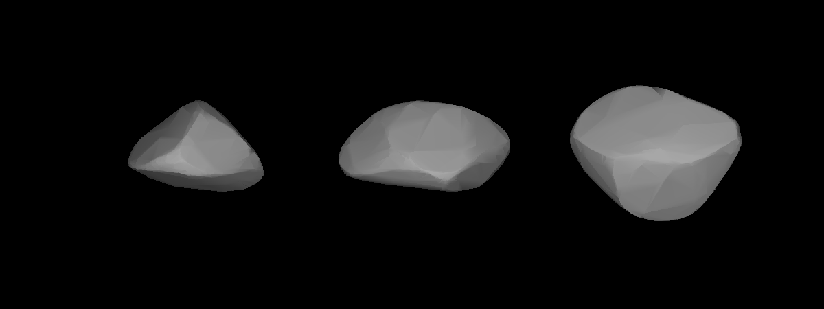 A three-dimensional model of 528 Rezia that was computed using light curve inversion techniques.